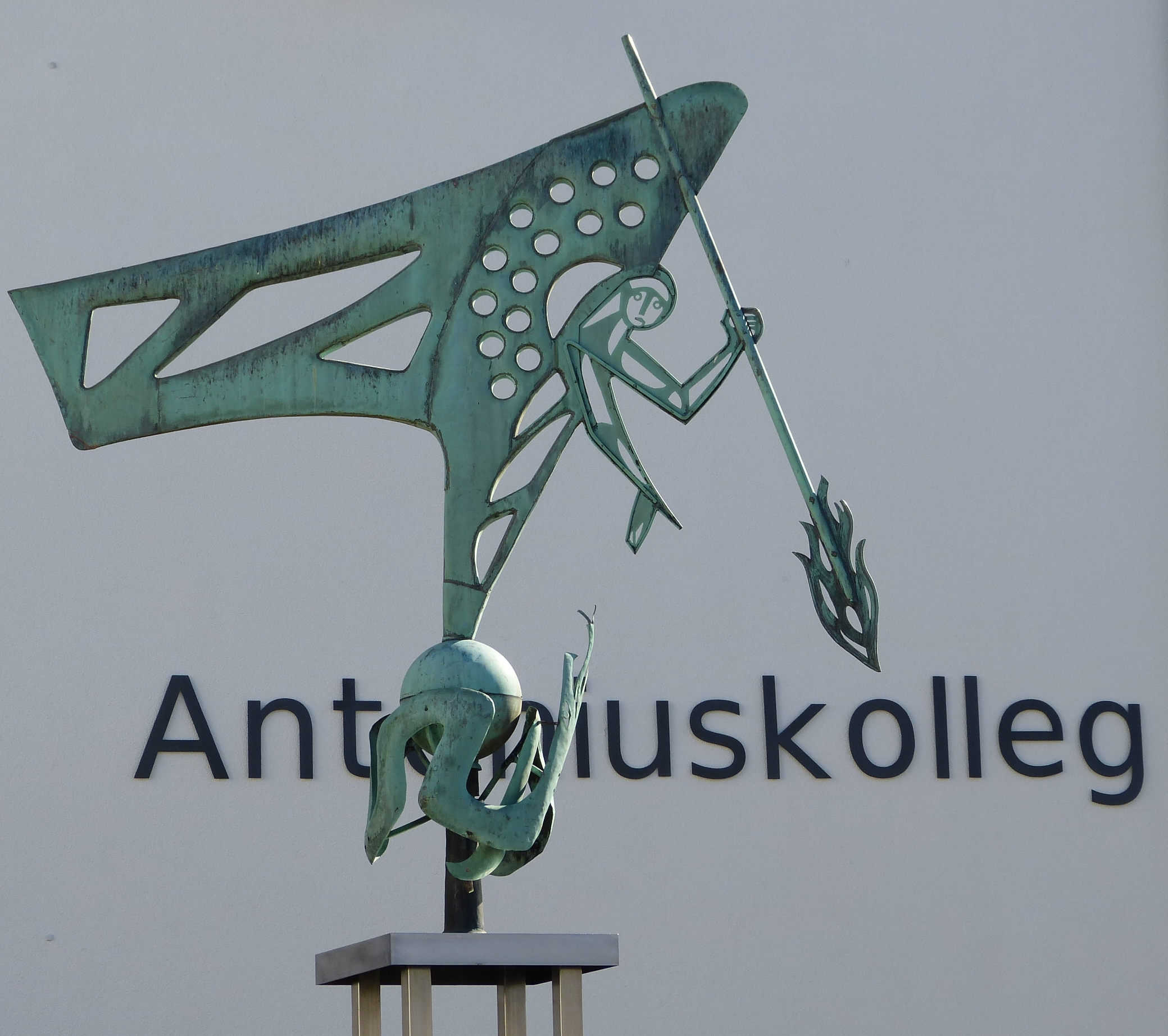 Windfahne des Kölner Bildhauers Heribert Calleen im neuen Eingangsbereich des Antoniuskollegs (2015)